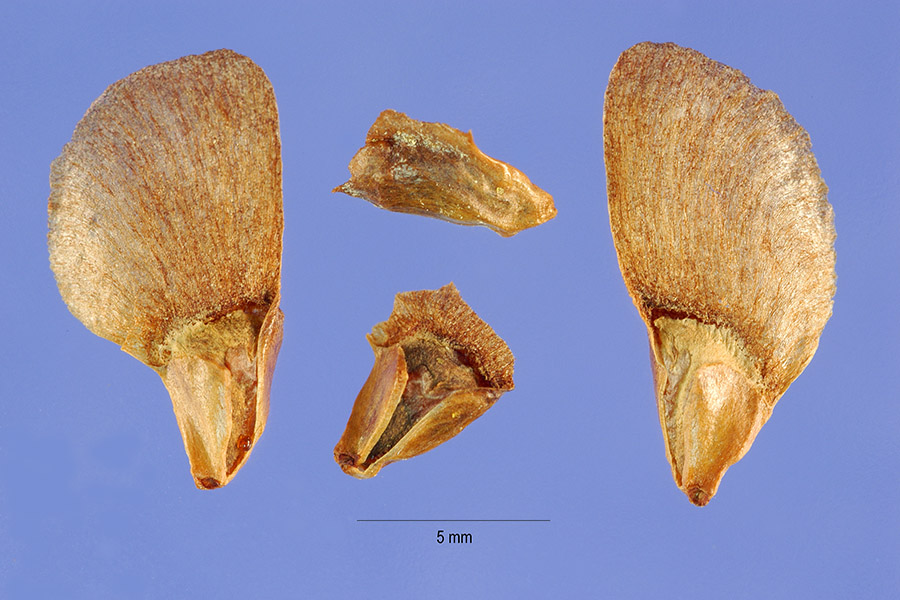 Seeds of balsam fir (Abies balsamea)